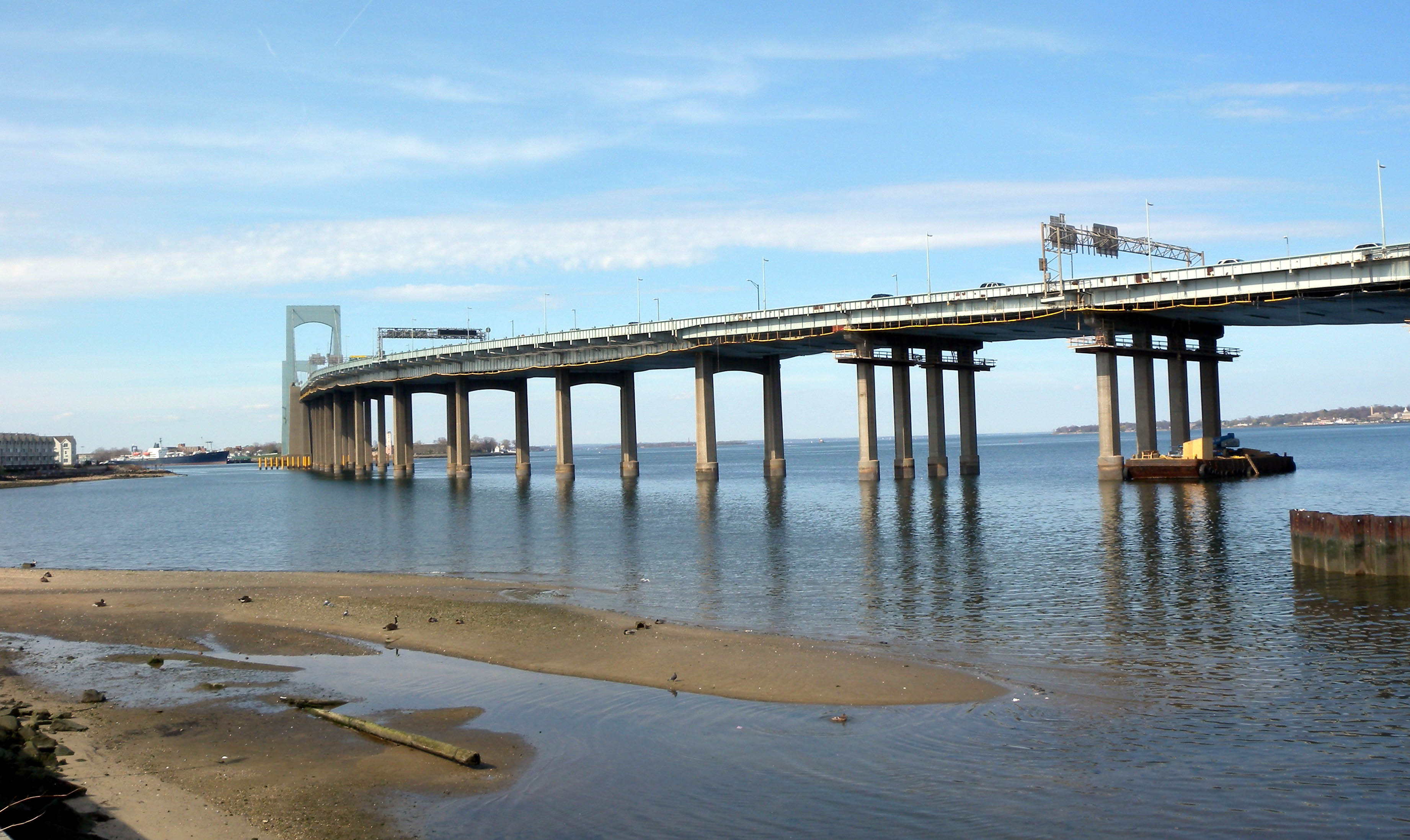 Looking north from the southwest corner of Little Bay at Throgs Neck Bridge approach on a mostly cloudy afternoon.